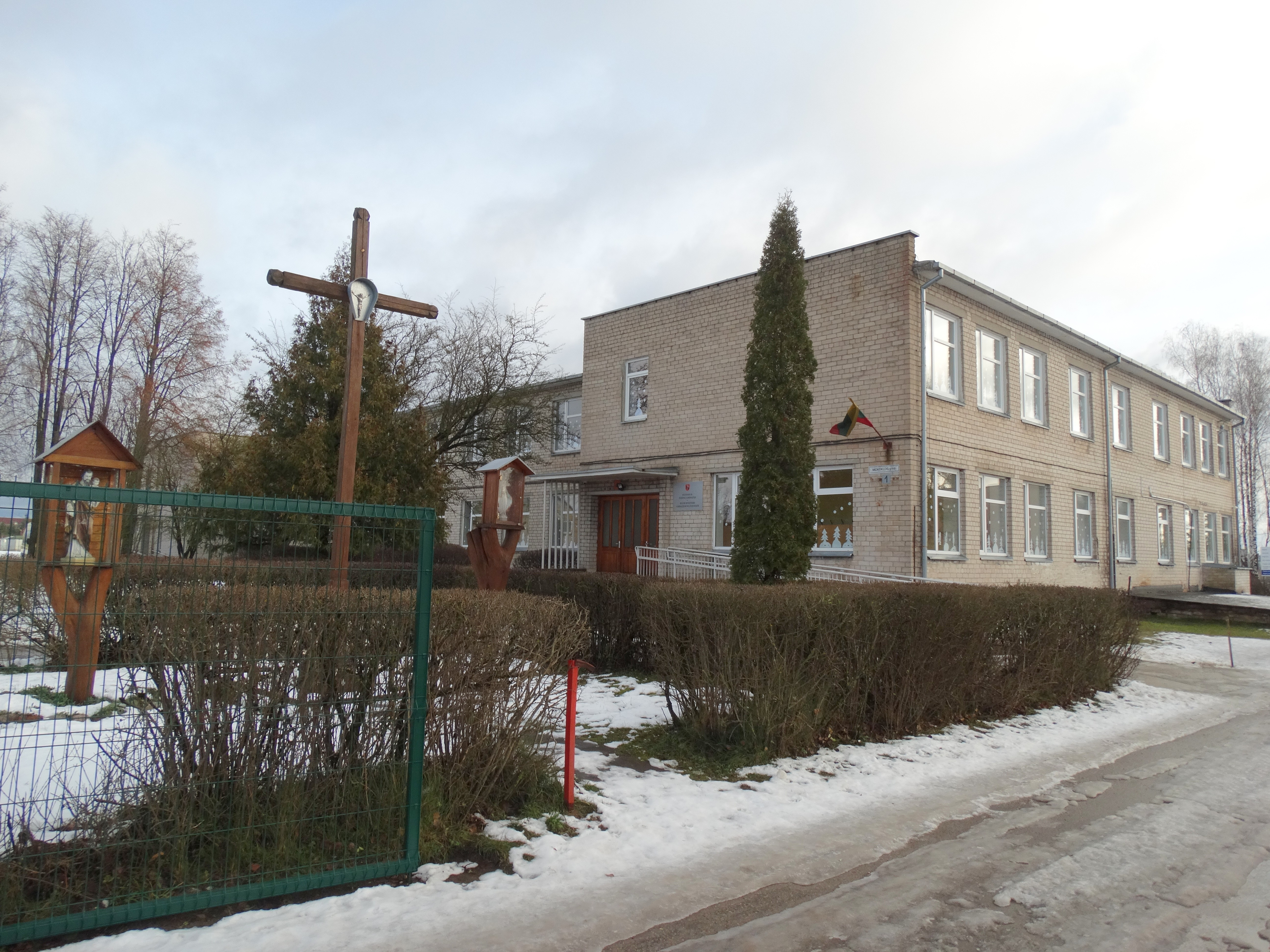 Gymnasium, Zujūnai, Vilnius district, Lithuania